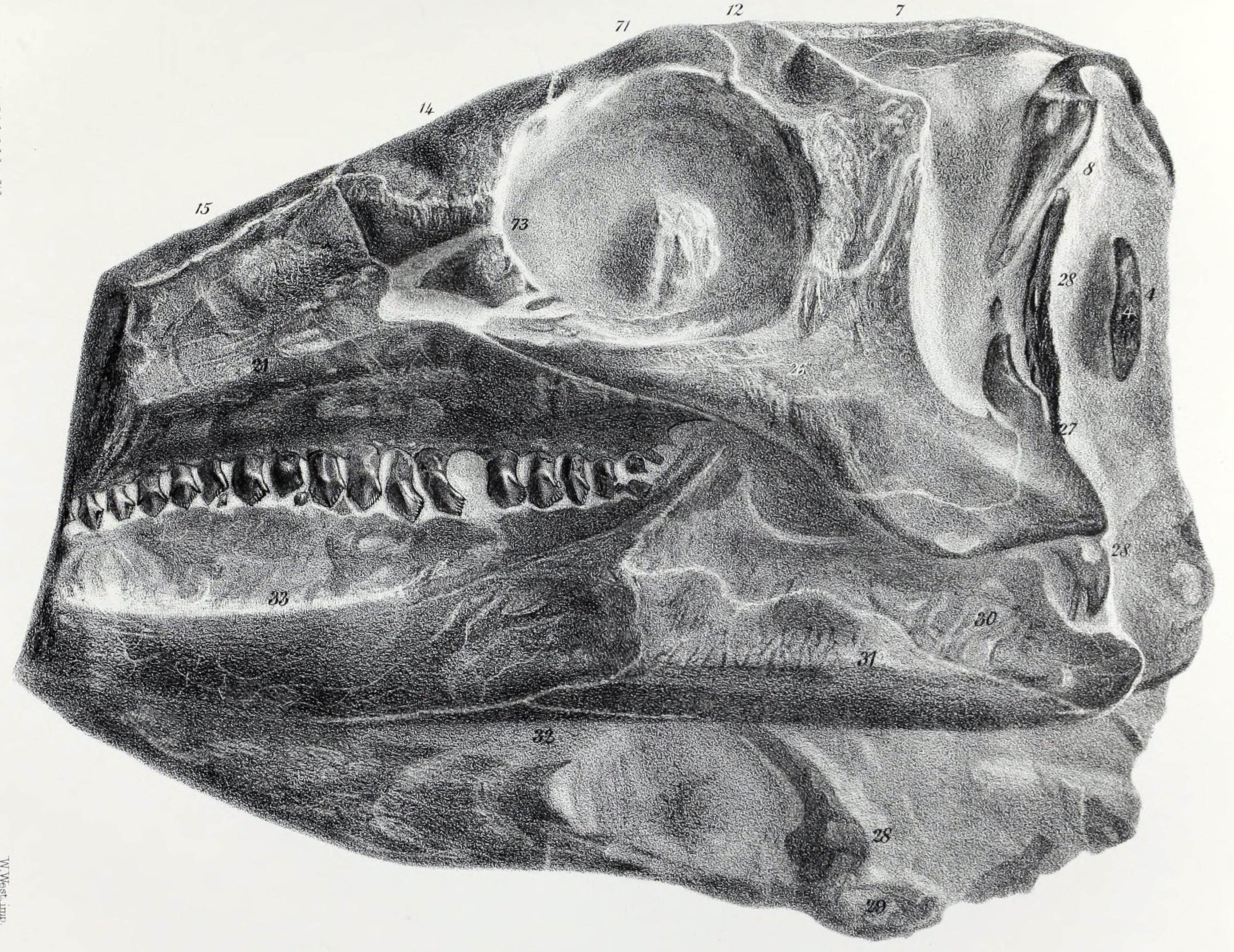 Drawing of the partial Scelidosaurus holotype skull